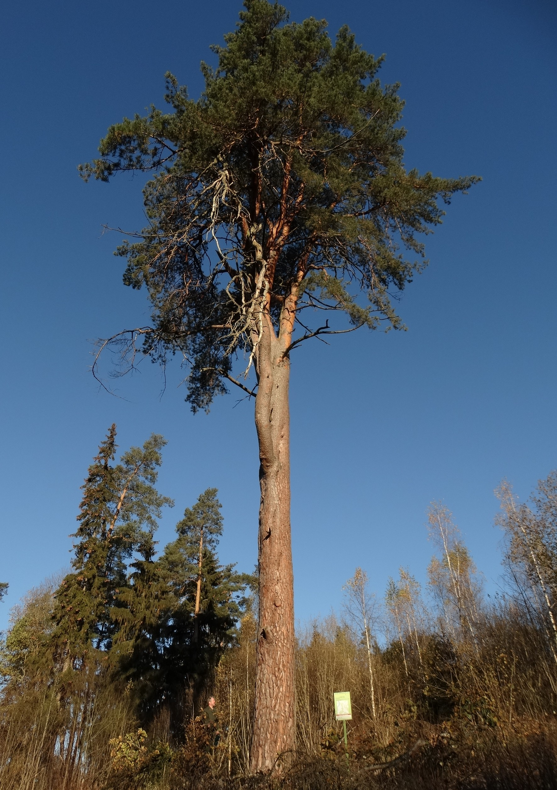 Pine tree, Varkališkės forest, Kaišiadorys District, Lithuania